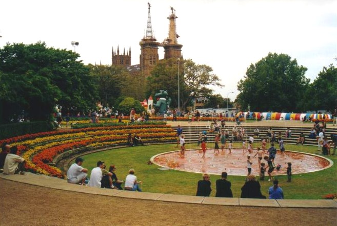 Photo taken of St Mary's during the construction of the twin spires